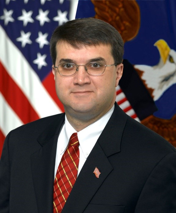 Robert Wilkie official photo